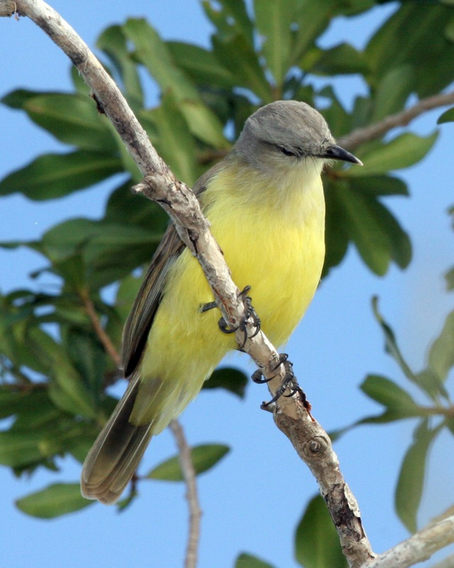 Cattle-Tyrant Machetornis rixosa Ibera Marshes 1st. April 2006 Distribution